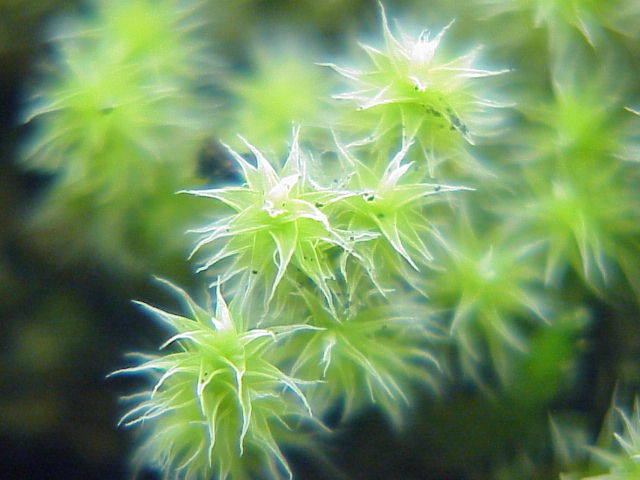 Species: Hedwigia ciliata Family: ' Image No. 1